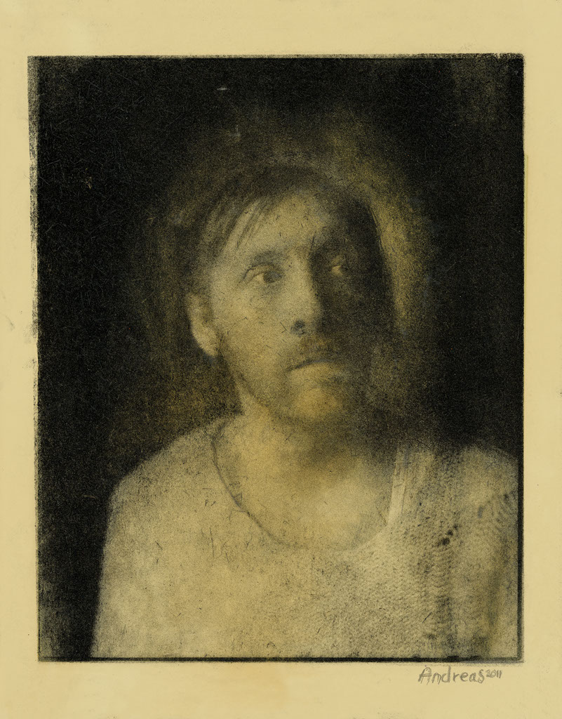 A bromoil portrait of the norwegian photographer Andreas Jackobsen. Toned in both tea and coffe.